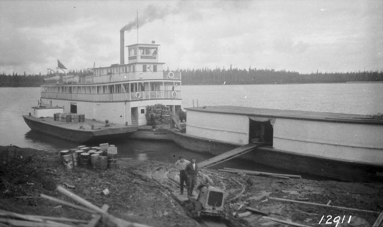 Credit: Canada. Dept. of Mines and Technical Surveys / Library and Archives Canada / PA-020433 Restrictions on use: Nil Copyright: Expired